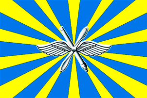 The flag of the Russian Air Forces as instituted on May 26, 2004 by the order of Defence Minister ? 160.